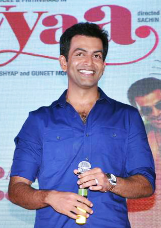 Prithviraj Sukumaran at the audio launch function of the film Aiyyaa in 2012.